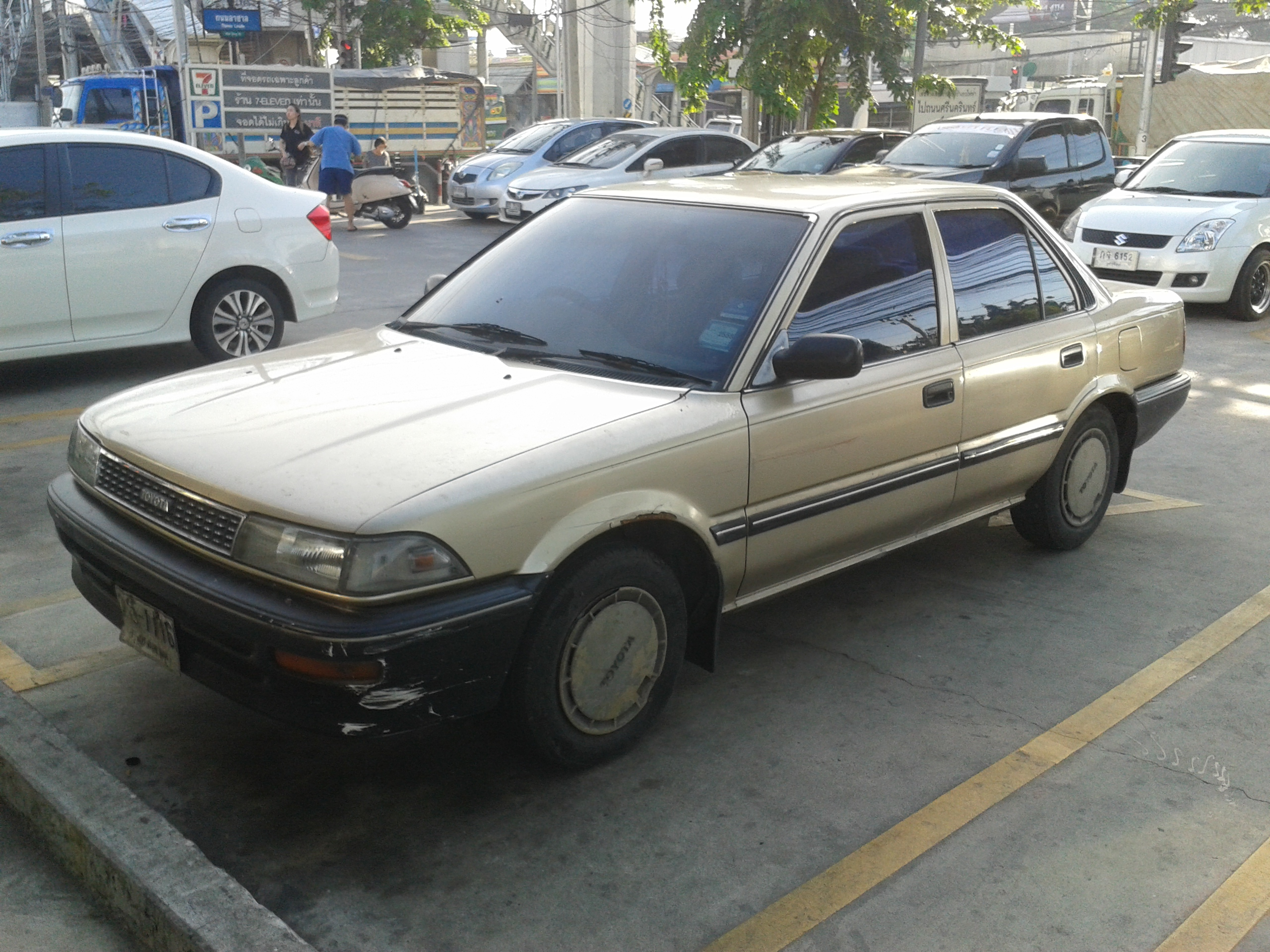 Toyota Corolla (E90) in Thailand.